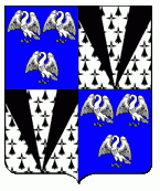 Coat of arms of Duke of newcastle - prime minister of Britain